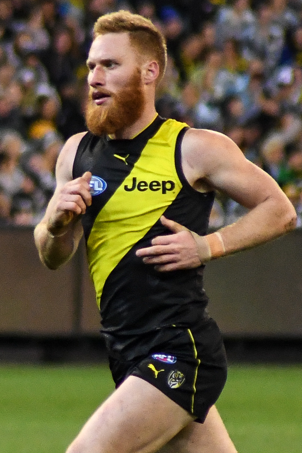 Nick Vlastuin of Richmond during the 2018 AFL round 20 match between Richmond and Geelong at the Melbourne Cricket Ground on Friday, 3 August 2018 in Melbourne, Victoria.